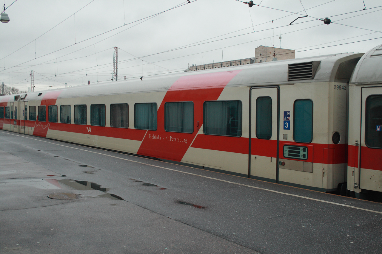 Finnish train Sibelius (named after famous Finnish composer) "Helsinki (Finland)-Saint-Petersburg (Russia)" at the Finlyandsky Rail Terminal.